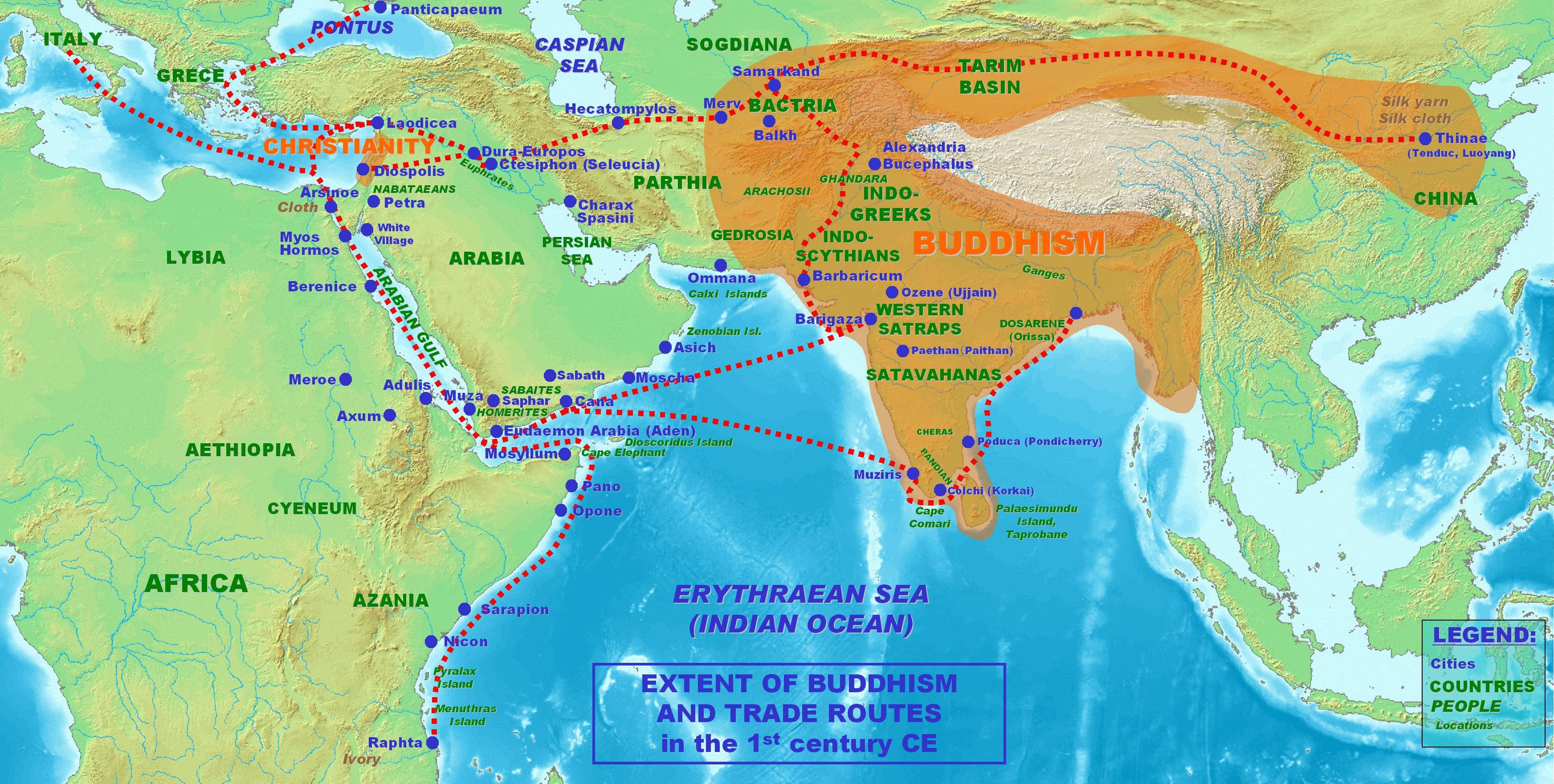 Extent of Buddhism and International trade routed in the 1st century CE.